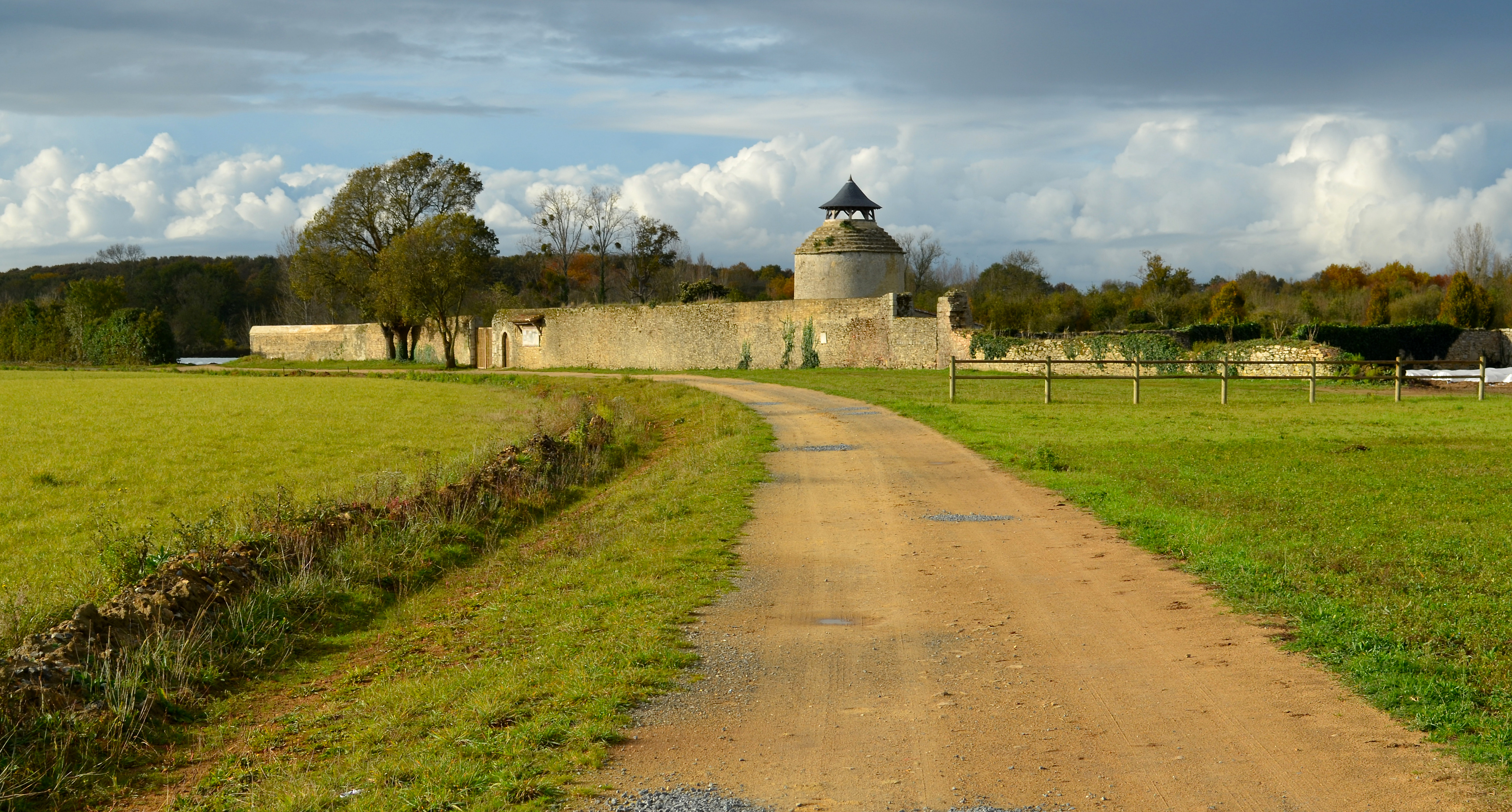 Notre-Dame de la Chaume abbey - Machecoul, France